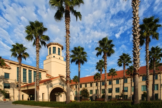 AdventHealth Celebration - Exterior